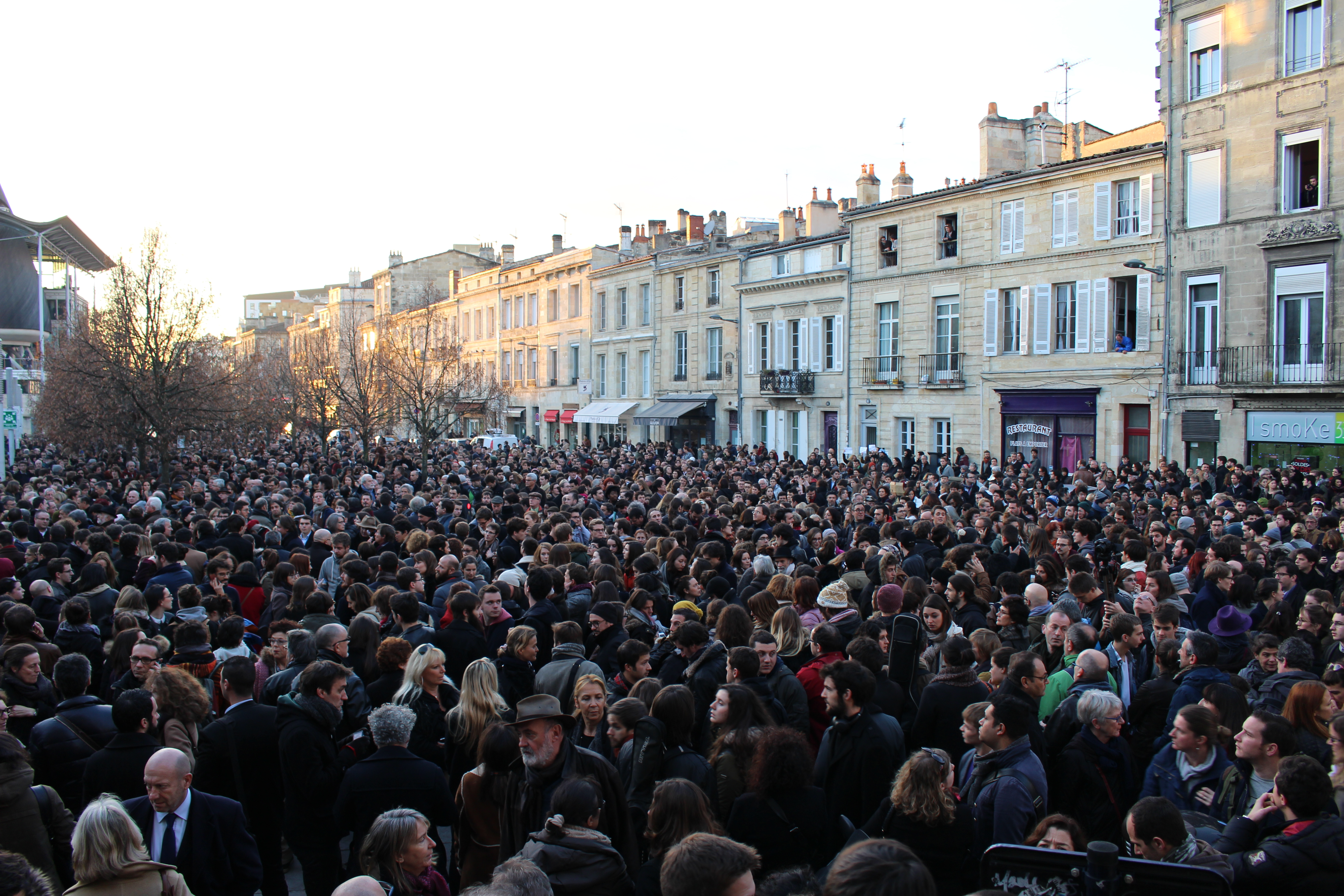 Rally in support of the victims of the 2015 Charlie Hebdo shooting. Bordeaux, parvis des Droits de l'Homme. According to the newspaper Sud Ouest, around 5000 persons were there (on the "parvis" and in the streets nearby).